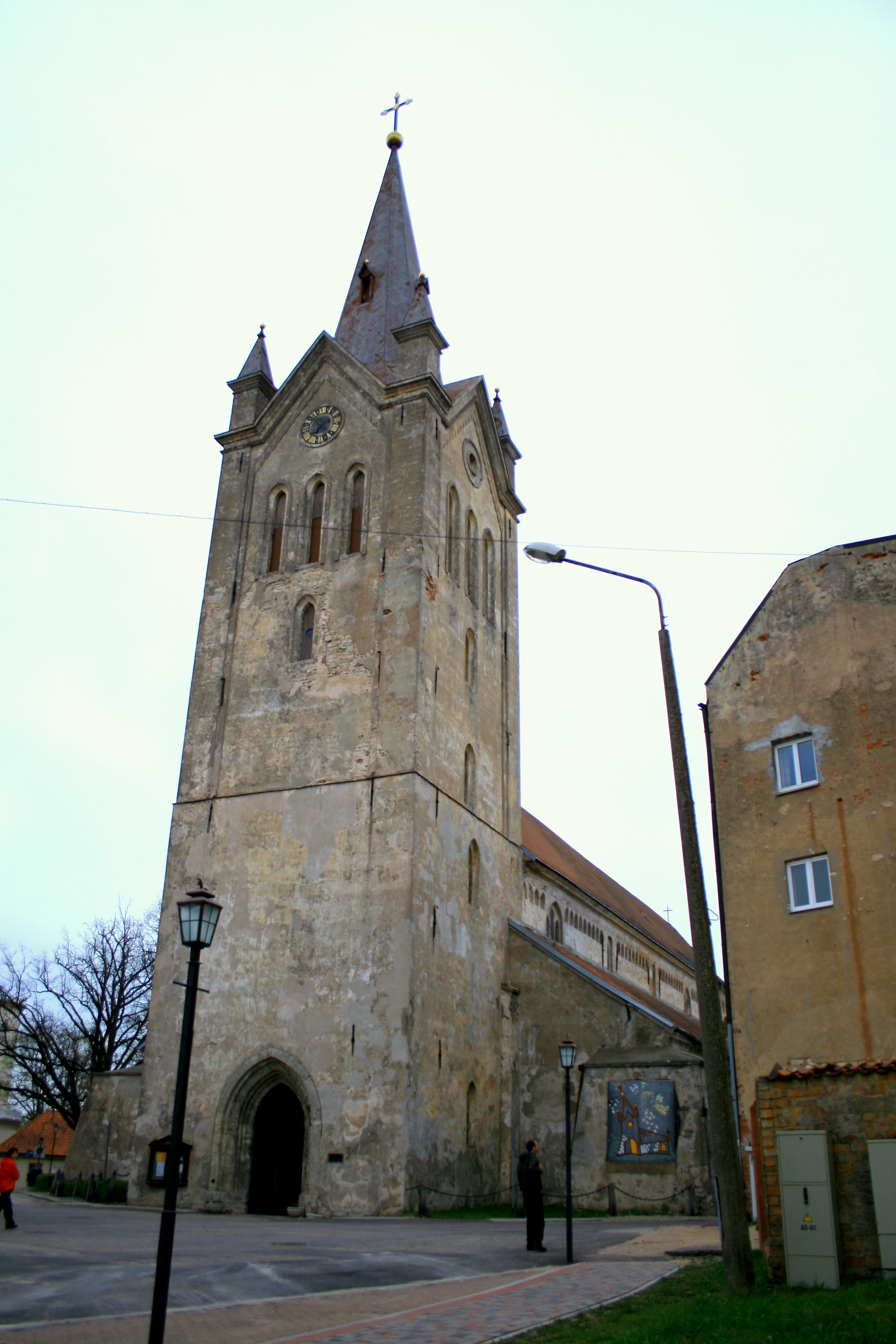 Cēsis Saint John the Baptist Evangelical Lutheran ChurchLatviešu: Cēsu Svētā Jāņa Kristītāja evaņģēliski luteriskā baznīca